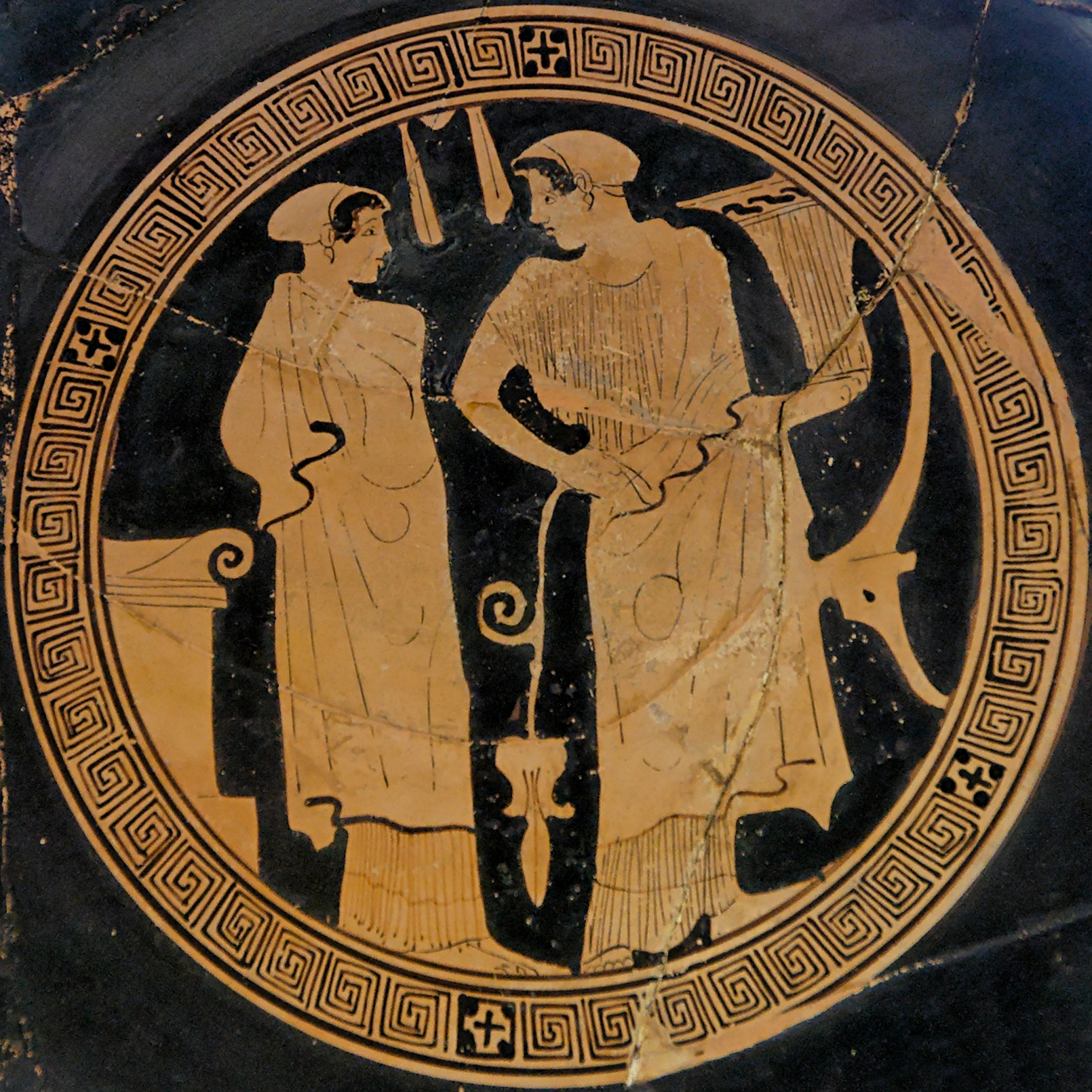 Women near an altar. Interior from an Attic red-figure kylix, ca. 450 BC. From Vulci.